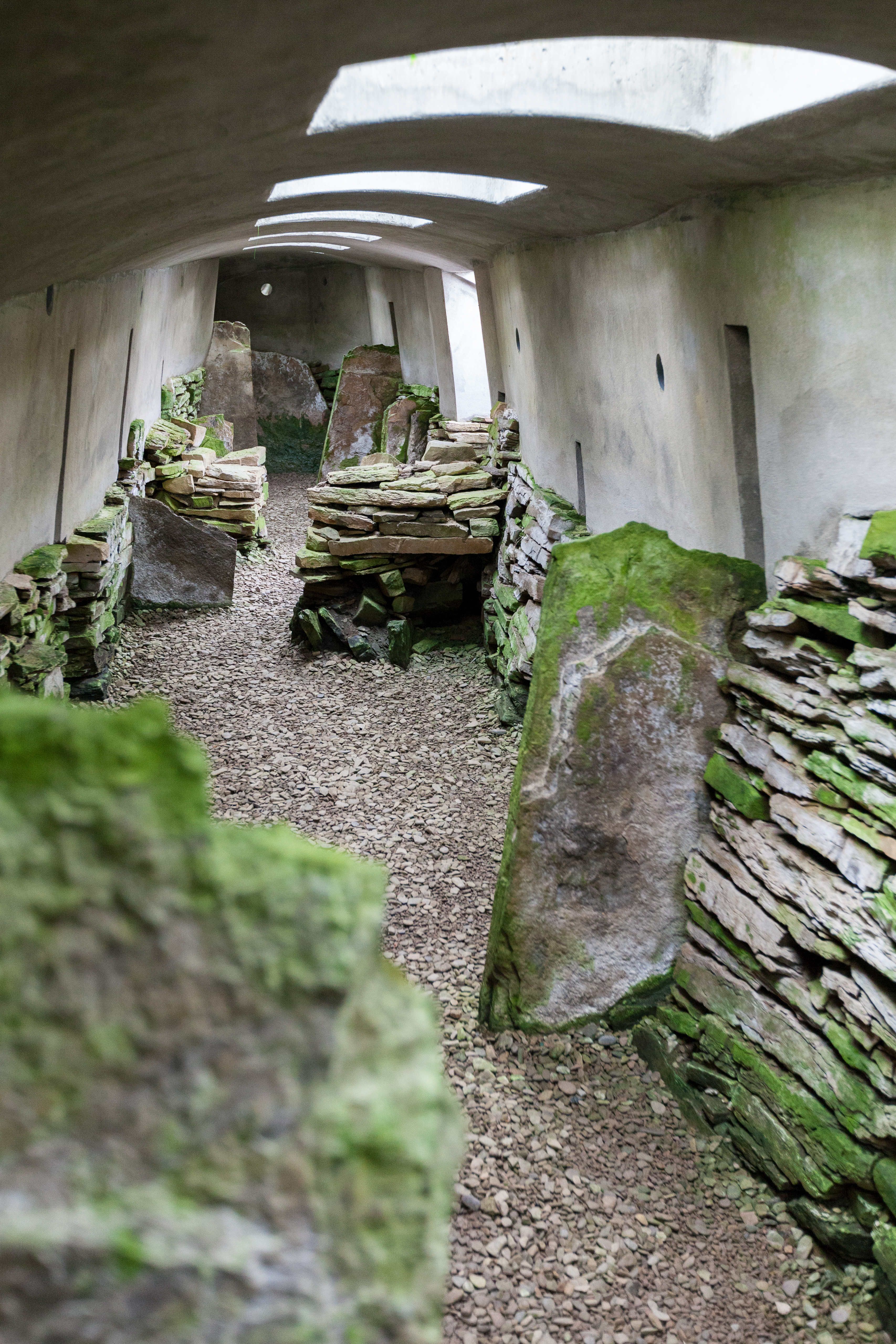 Blackhammer chambered cairn, Rousay (interior) Wikidata has entry Q880846 with data related to this item.